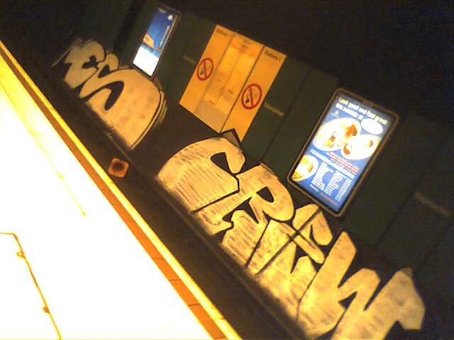 Haymarket station on the Tyne and Wear Metro. Advert hoardings and graffiti on one of the tunnel side walls.